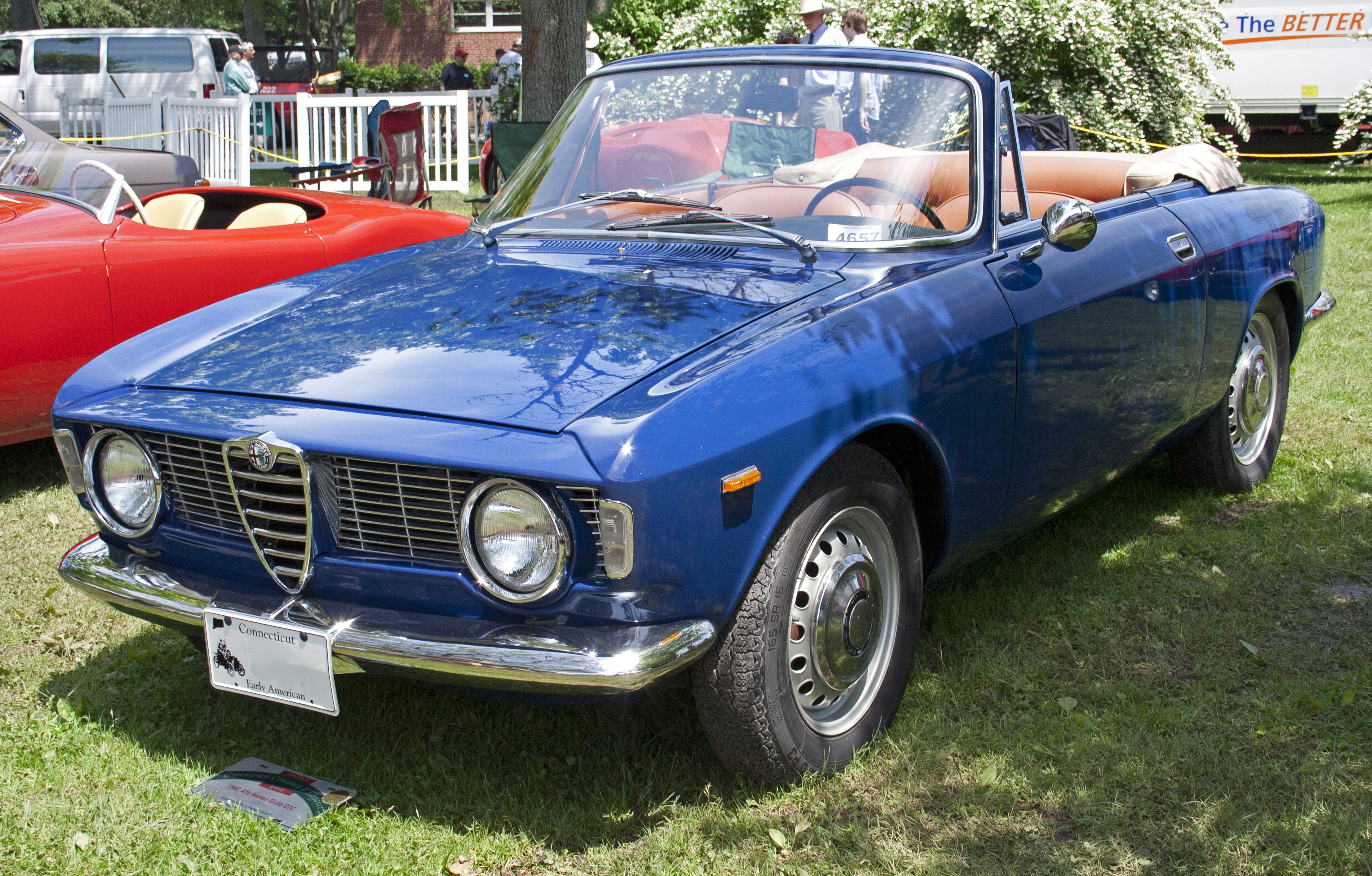 1966 Alfa Romeo Giulia GTC Spider at the 2012 Greenwich Concours d'Elegance.